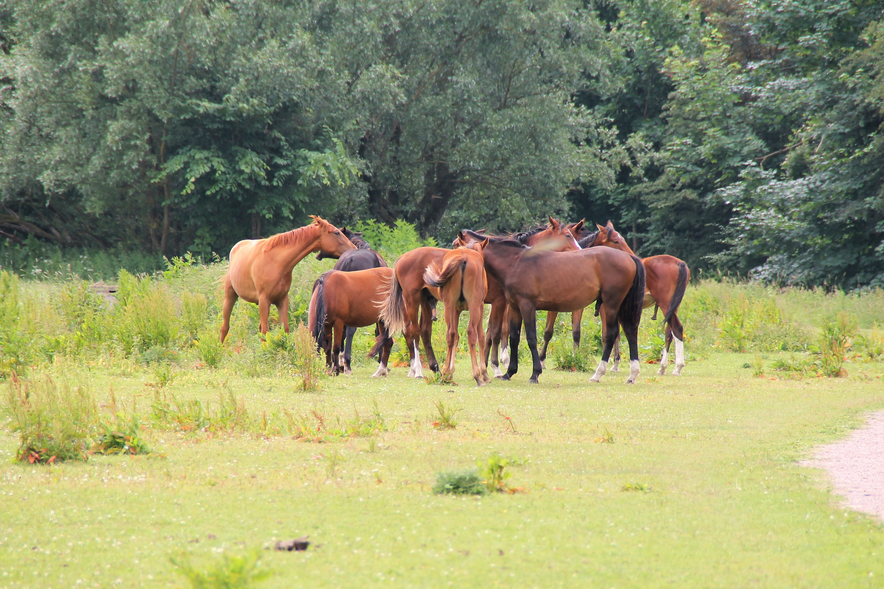 Paddock in Lund's south near the small Höje river